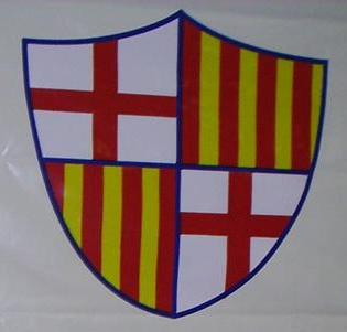 Escudo original 1925